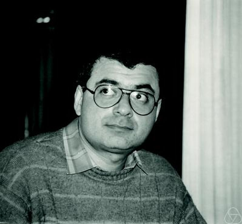 Gabor J. Szekely, 1987